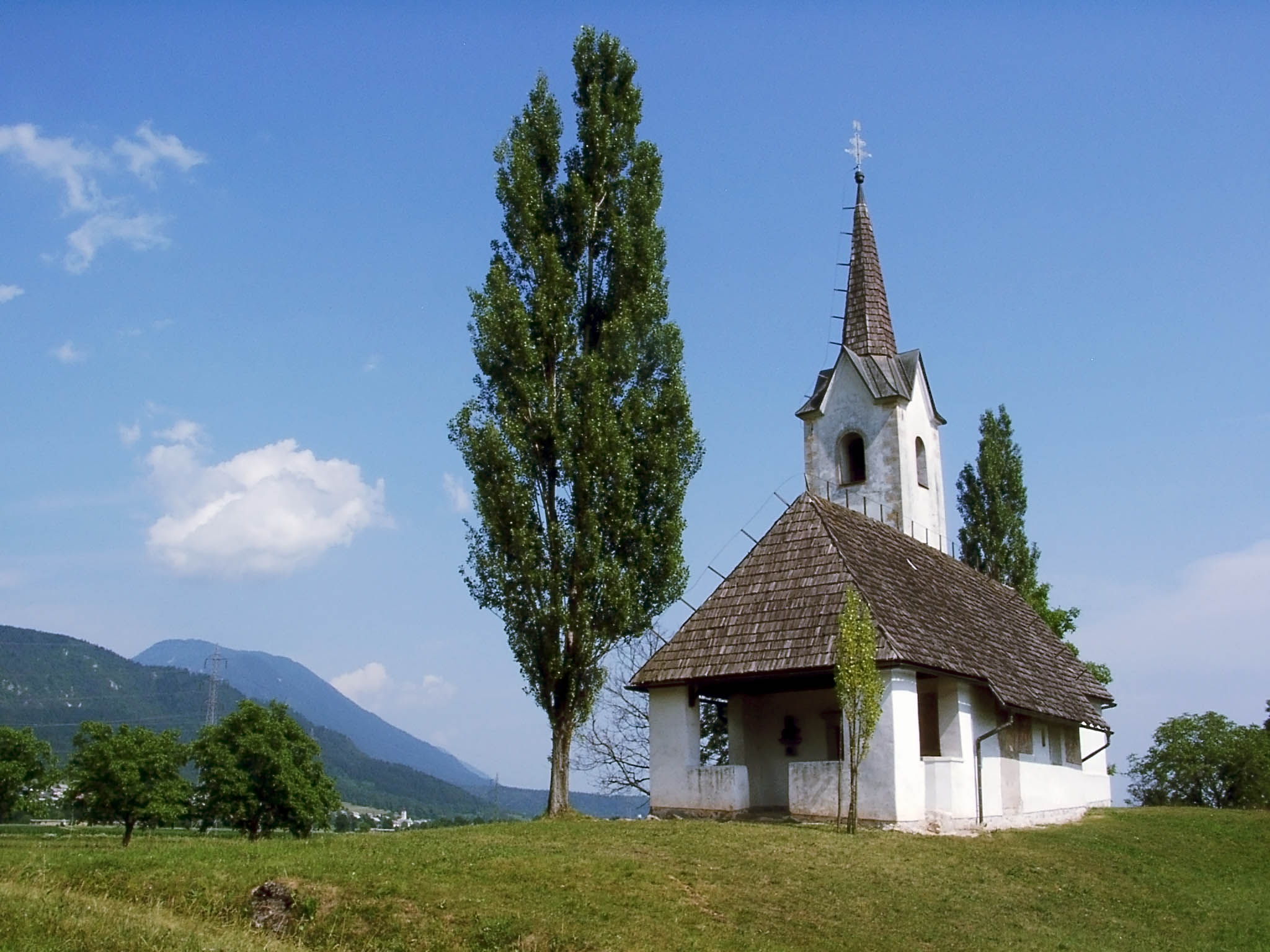 St. Marks' Church in Vrba na Gorenjskem.